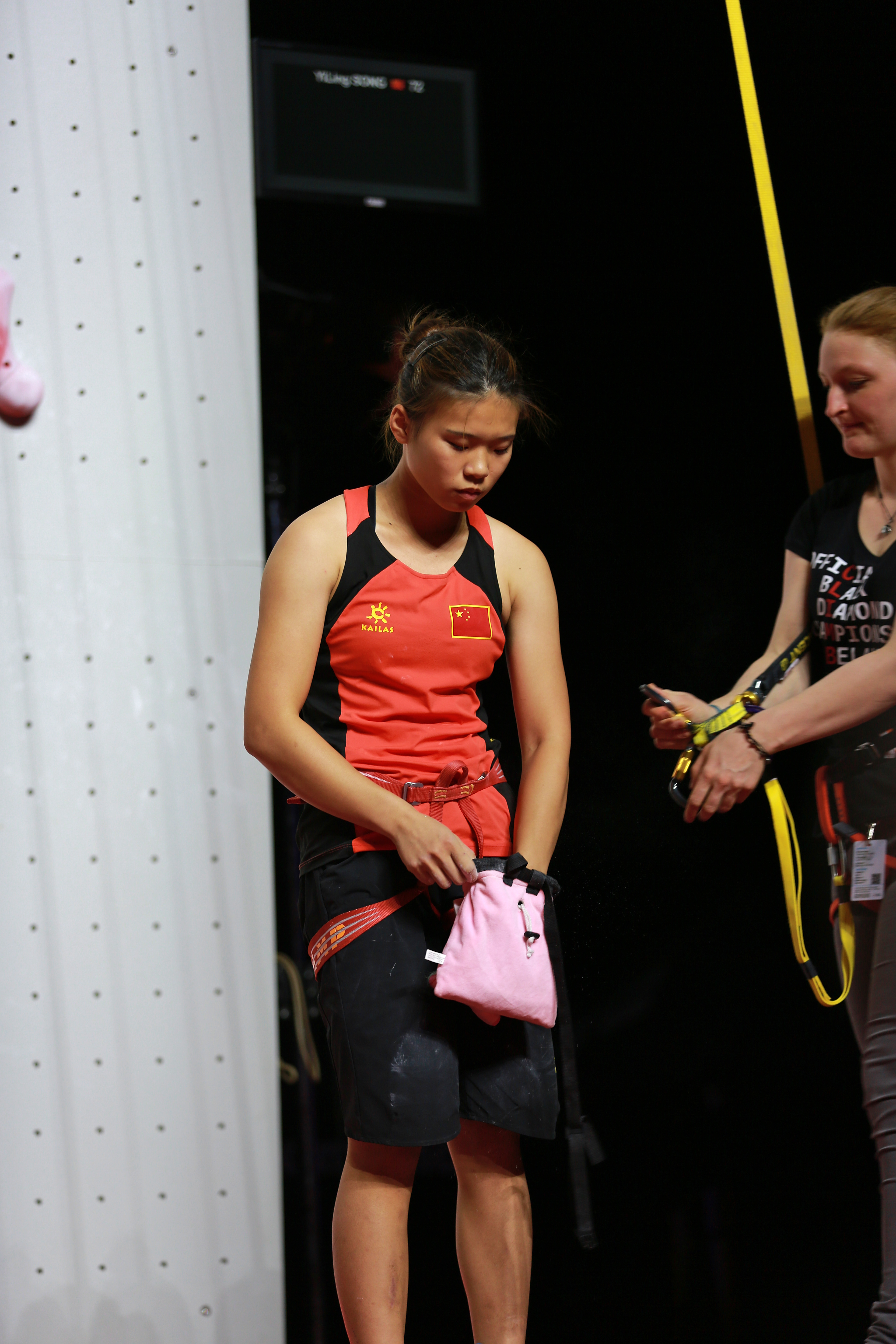 Climbing World Championships 2018 Speed Quarterfinals